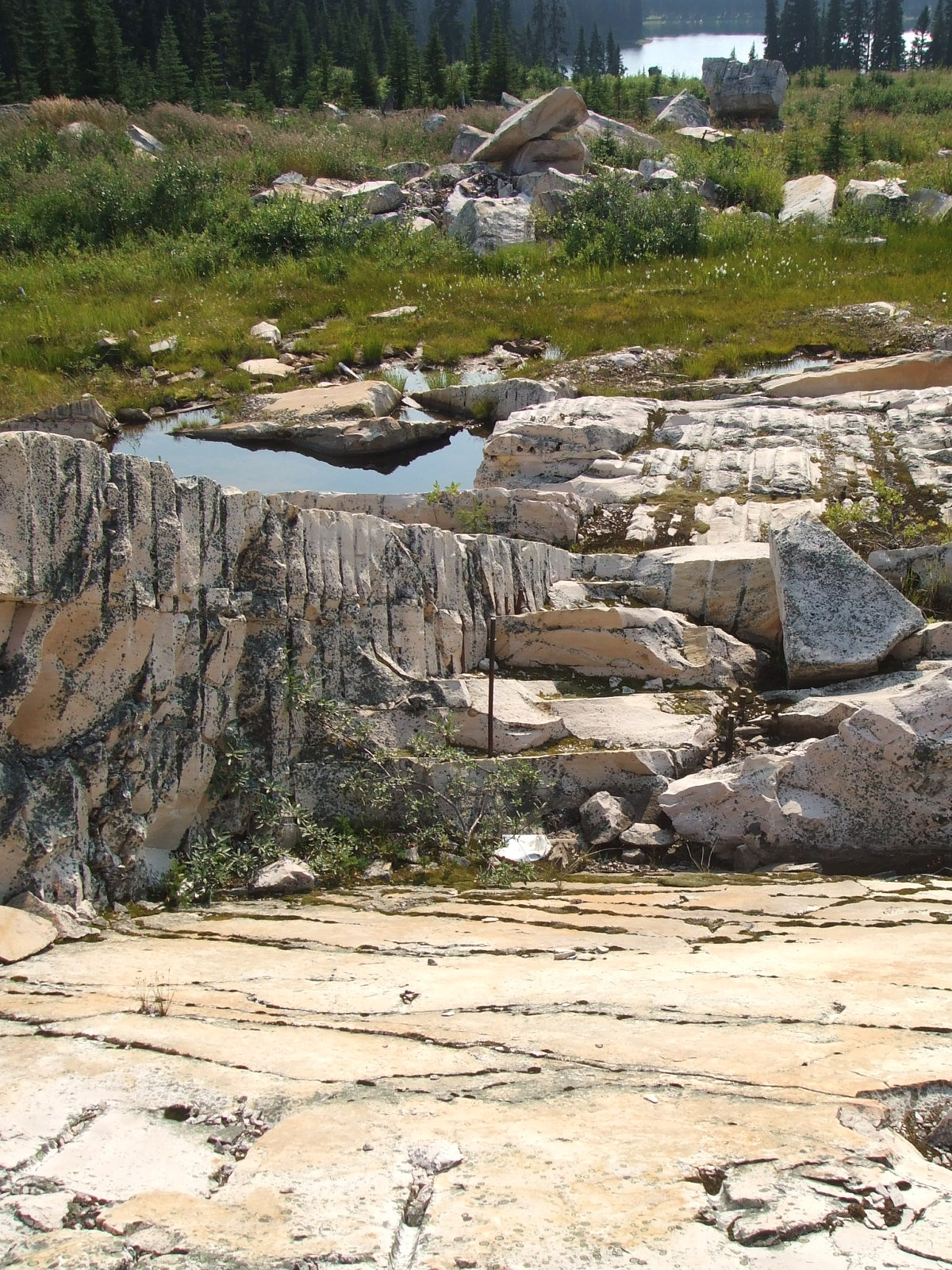 Abandoned quartzite mine in Kakwa Provincial Park and Protected Area near Wishaw Lake